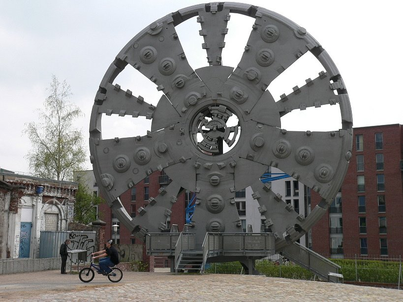 Cutting shield of a Tunnel boring machine used for the highway tunnel below the river Elbe. Trude is a german girls name; Tief Runter Unter Die Elbe means deep below the Elbe. Diameter: 14,2 m; weight: 380 t